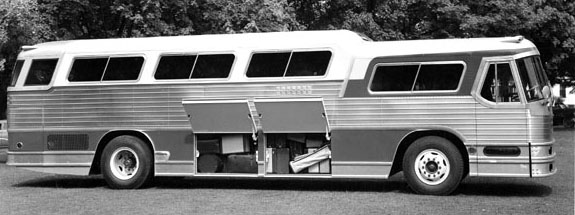 1955 Flxible VL100 highway coach, factory photo